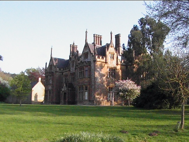 Compton House, Over Compton Taken from curve of the entrance road, about 150 degrees. for recent developments here.